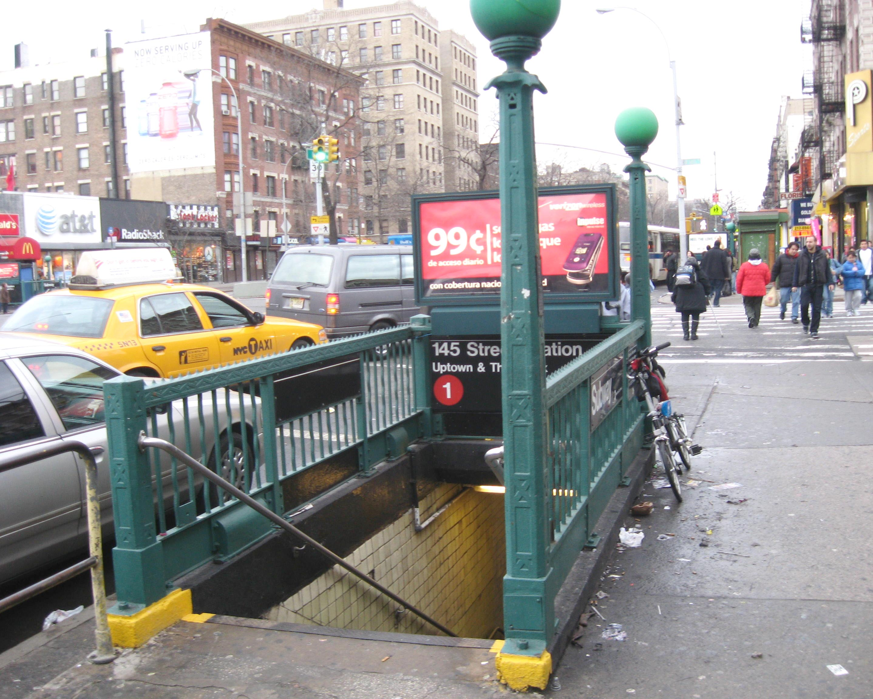 Looking north at northbound stair of en:145th Street (IRT Broadway–Seventh Avenue Line) on a cloudy midday.